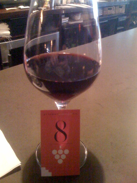 A glass of the Italian wine grape variety Dolcetto